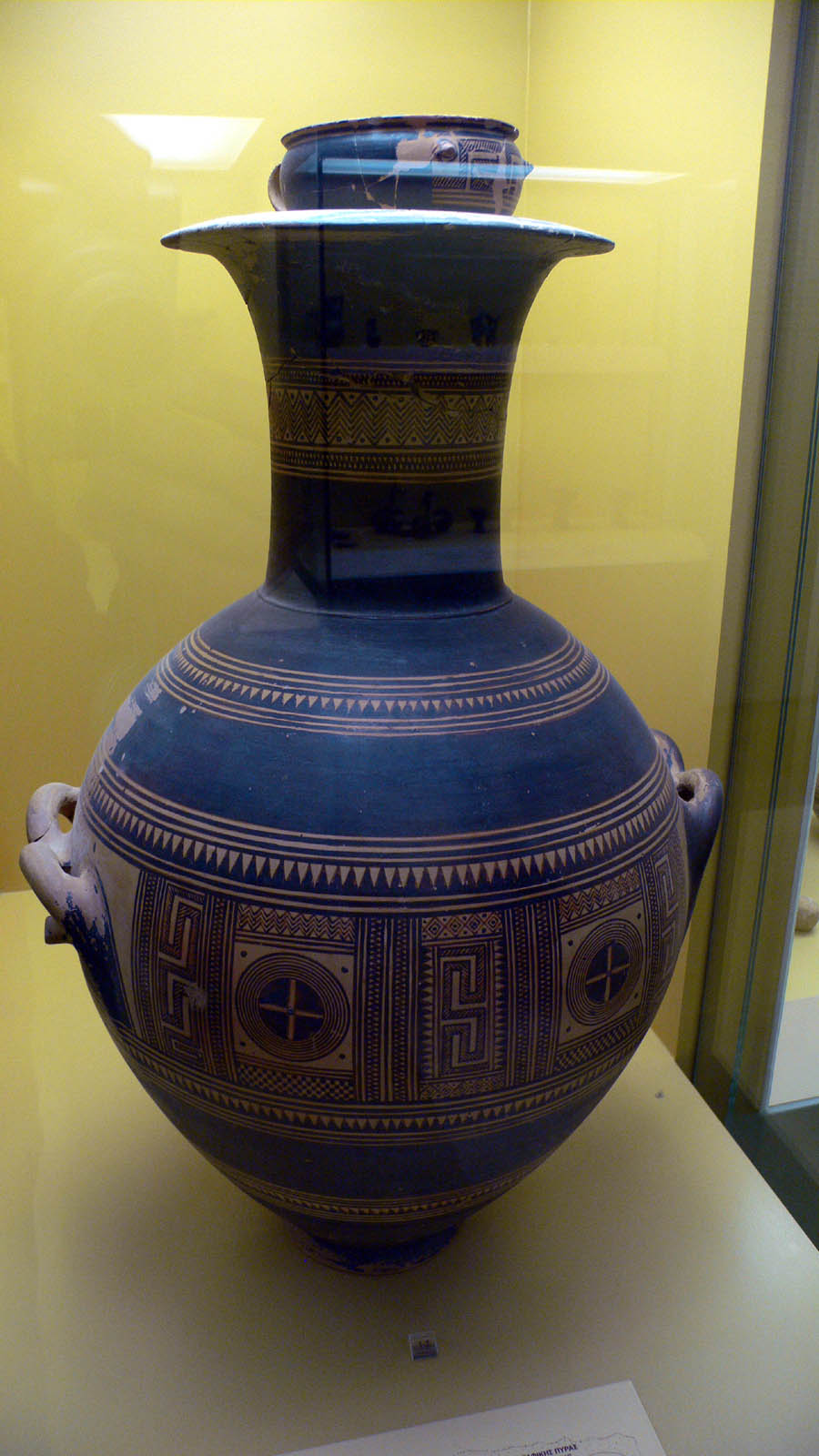 Early geometric Cremation burial of a pregnant woman. 850 B.C. Museum of the Agora of Athens